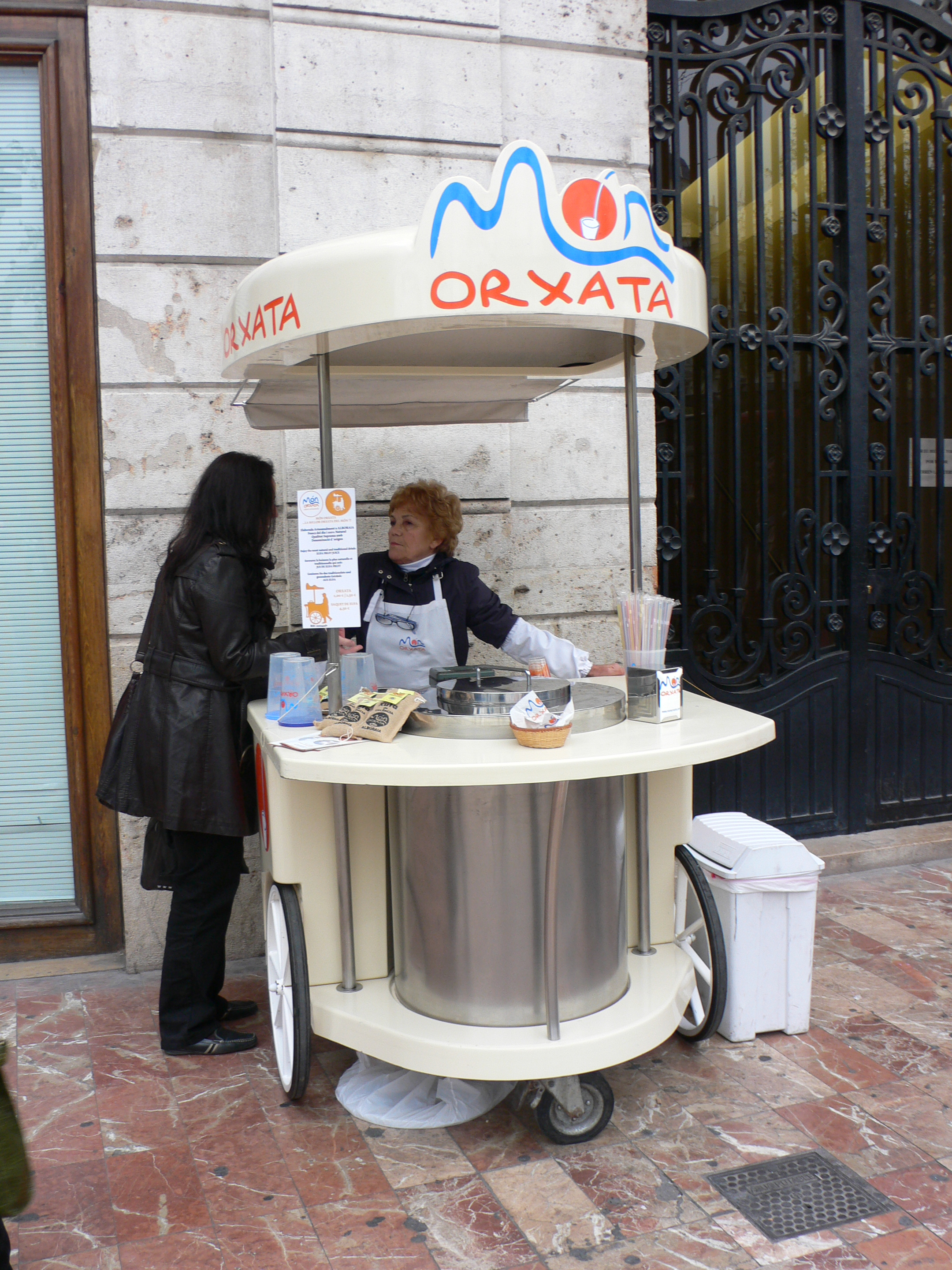 Horcheta is a sweet mily drink made with tiger nuts. Restaurants we ate at on my holiday in Valencia April 08 This set links to my blog posts on Valencia - Valencia This photo is licensed under Creative commons for use including commercial on condition that you link back to or credit See my profile for more detail.